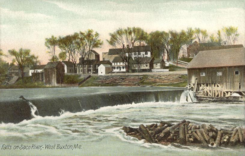 Falls on Saco River, West Buxton, Maine; from a c. 1908 postcard published by the Hugh C. Leighton Company, Portland, Maine.